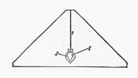 Fig. 35 A set level, a rigid level making use of a plumb bob to establish a vertical datum. 'If a spirit level cannot be had, the engineeer can make a set level as illustrated. It consists of a triangular board, with one level edge planed true, with a pencil mark at right angles to this edge and a plumb-bob attached to it in the manner shown.'